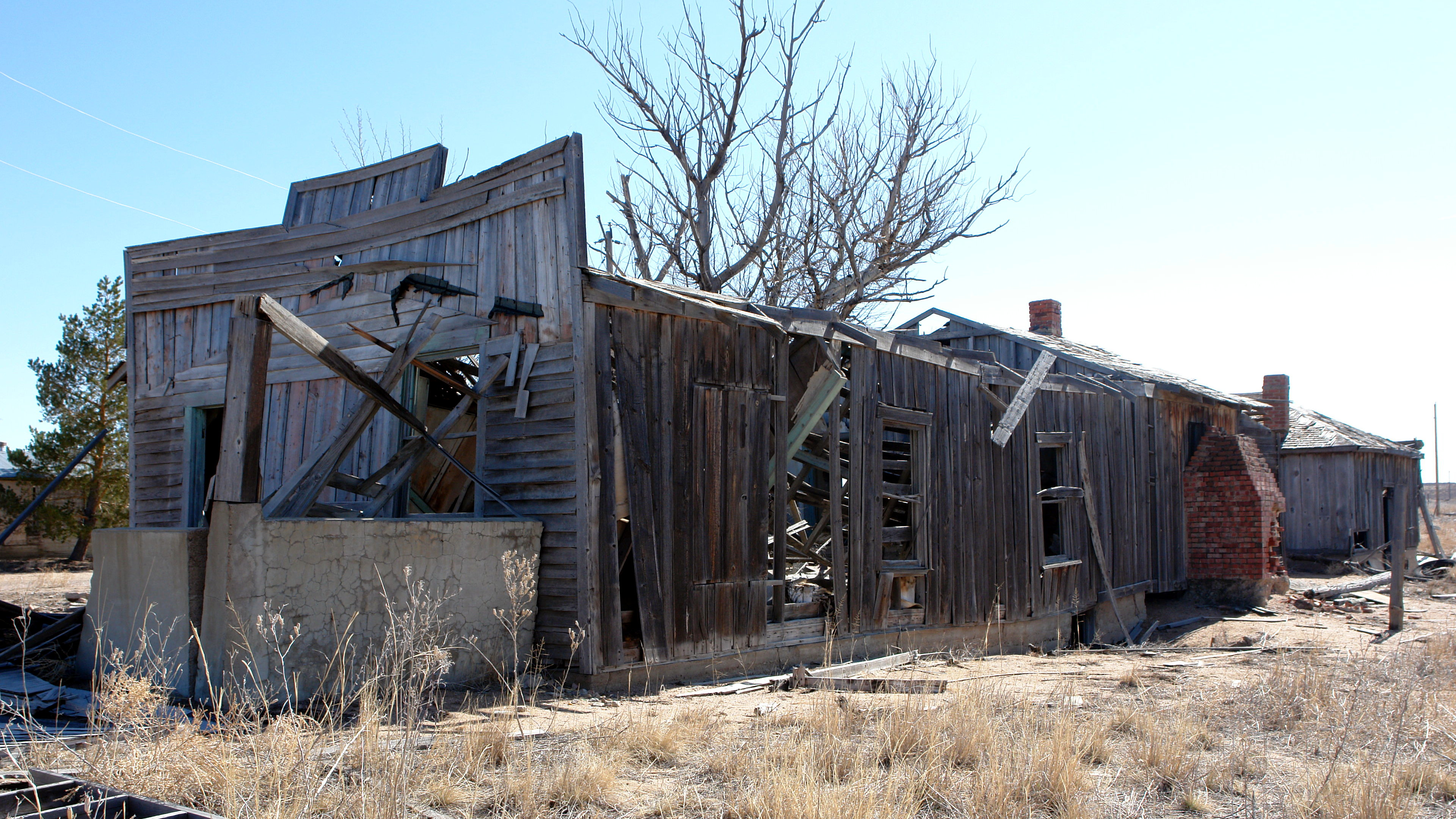 A couple of building in Dearfield, CO. The roofs have fallen down.